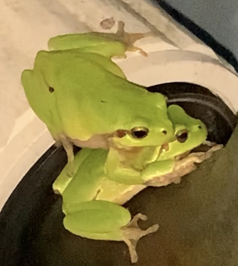 Hyla perrini coupling